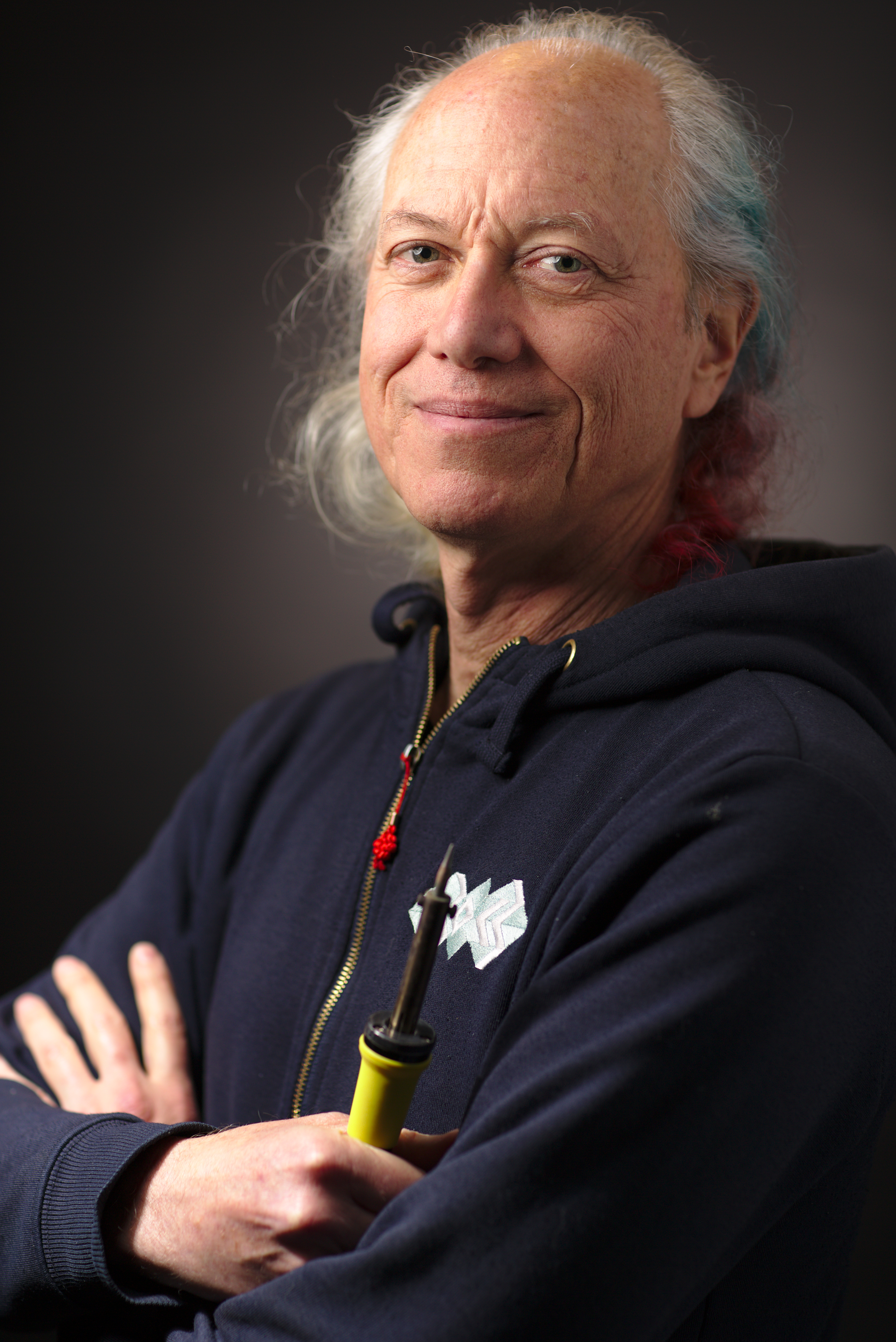 Portrait photograph of Mitch Altman, april 2017